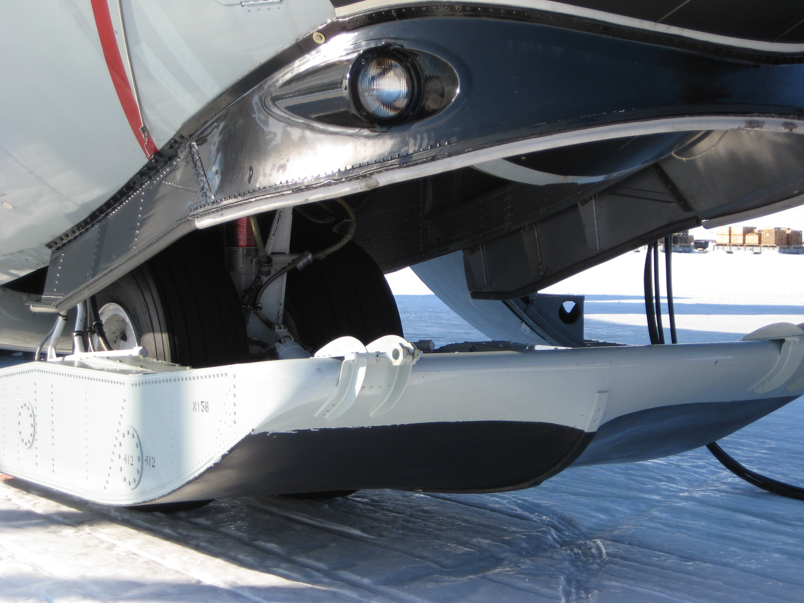 LC-130 Skis photographed at Williams Field in Antarctica